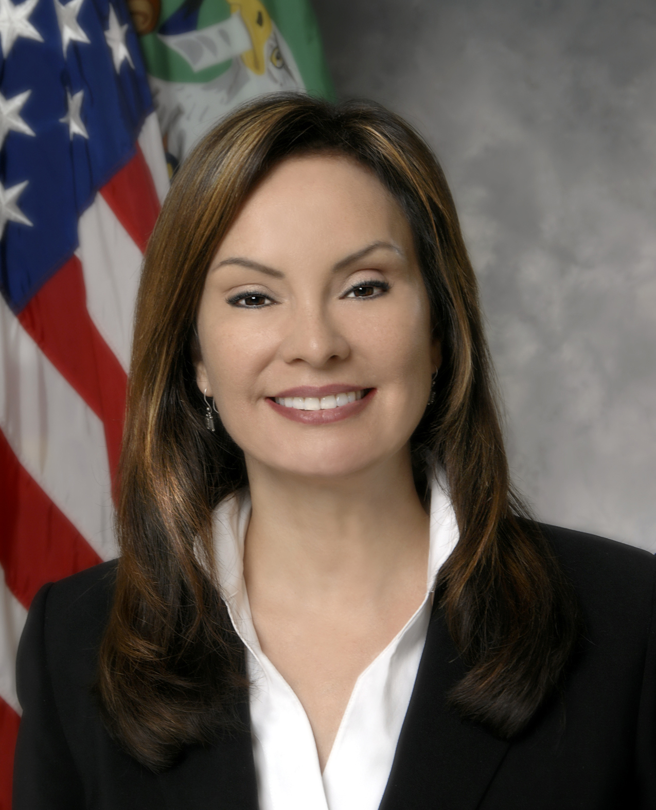 Official photograph